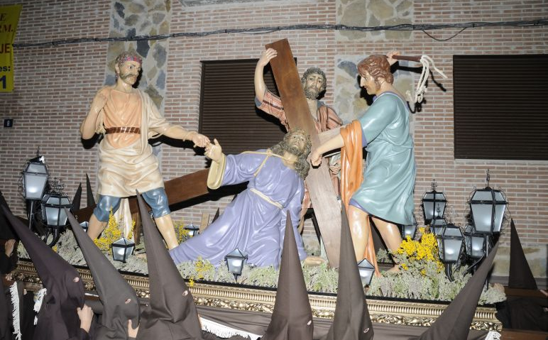 La Caída.